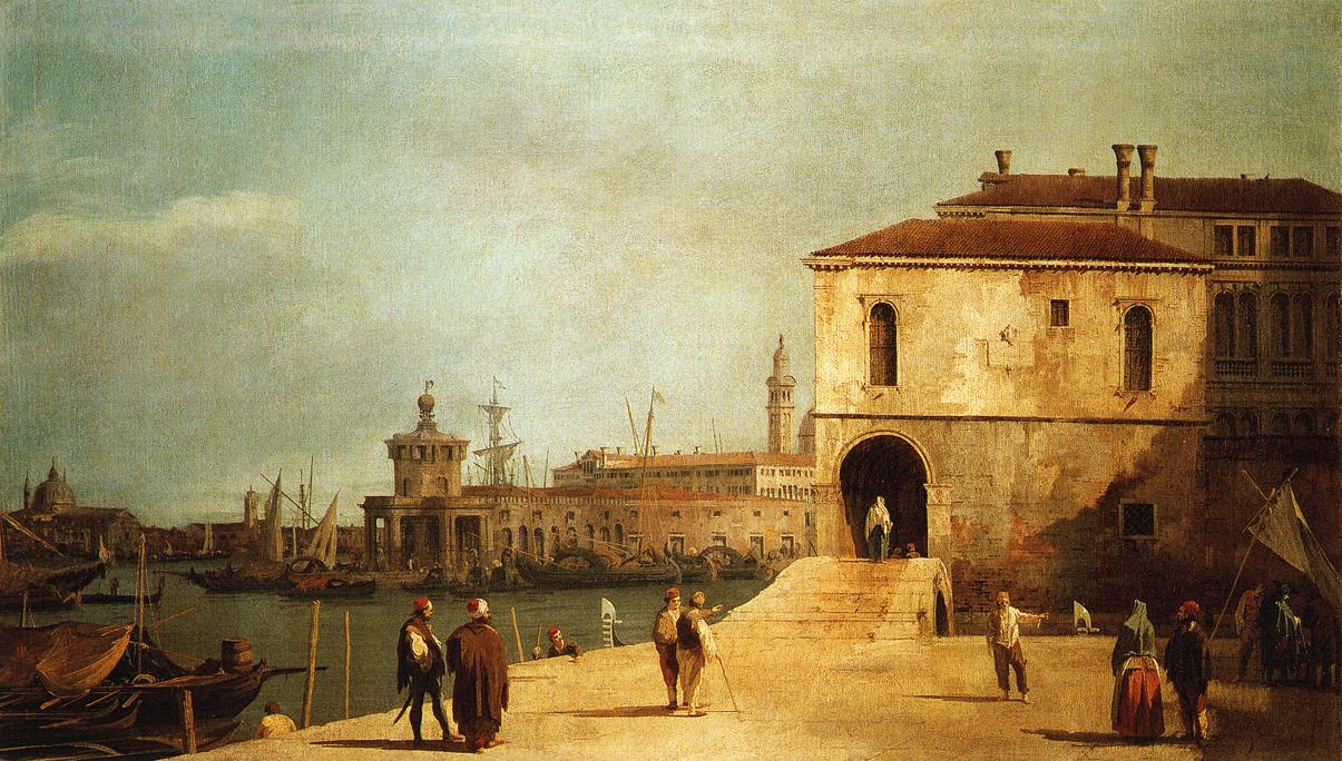 Baroque-style